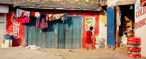 Coca Cola advertisement in a rural area of Nepal.